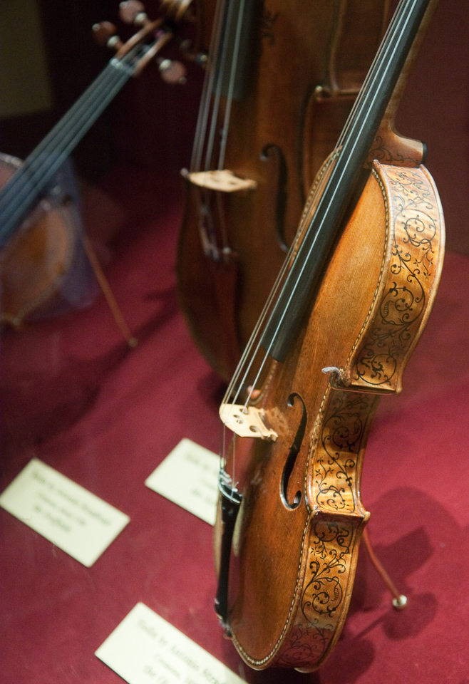 Side view showing ornamentation detail on the Stradivarius "Ole Bull" violin (1687). Smithsonian Museum of American History. References Violin by Antonio Stradivari, 1687 (Ole Bull). . Cozio LLC.